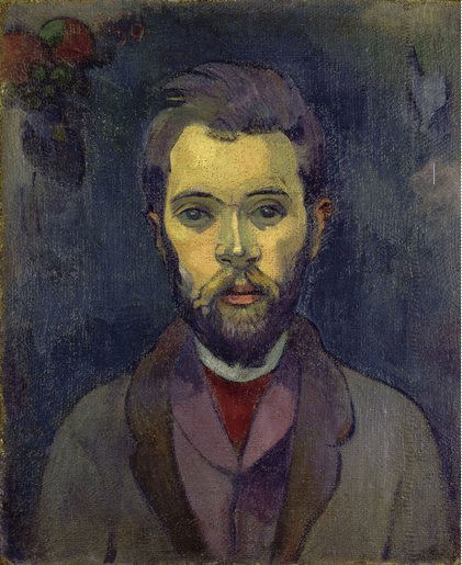 Depicted person: William Molard (1862-1936), French musician